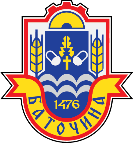 Coat of Arms of the city and municipality of Batočina, Serbia